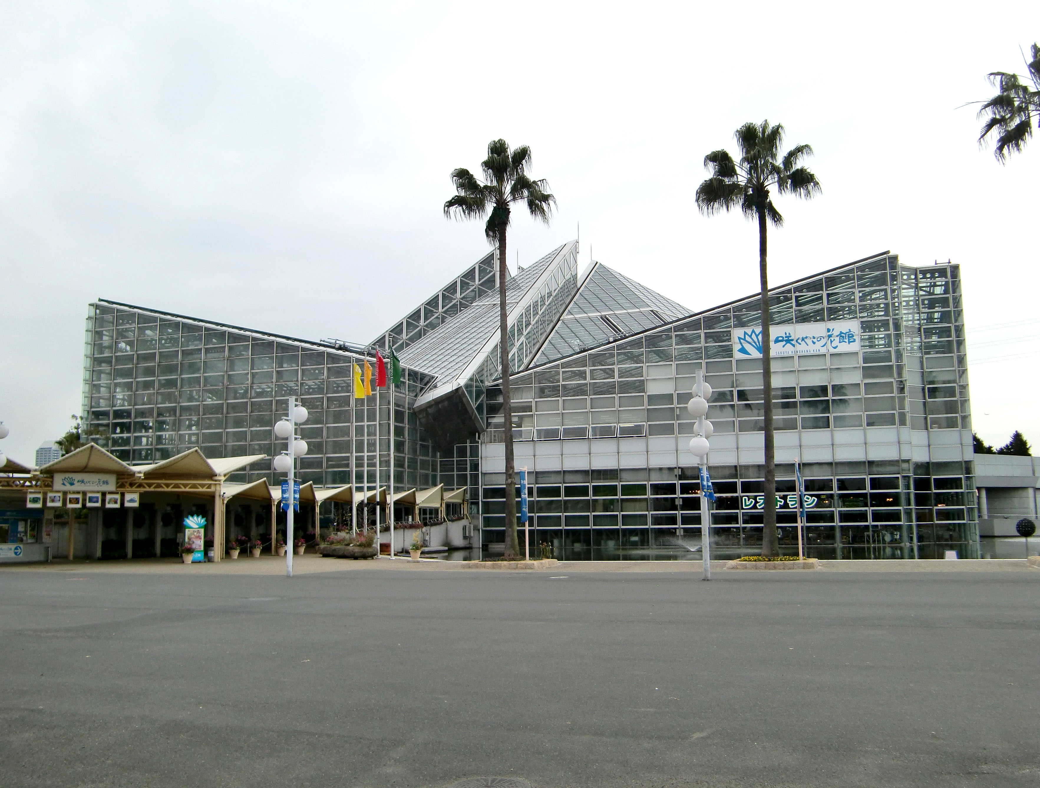 SAKUYA KONOHANA KAN, 2-163 Ryokuchi-koen Tsurumi-ku Osaka-City OSAKA Japan.